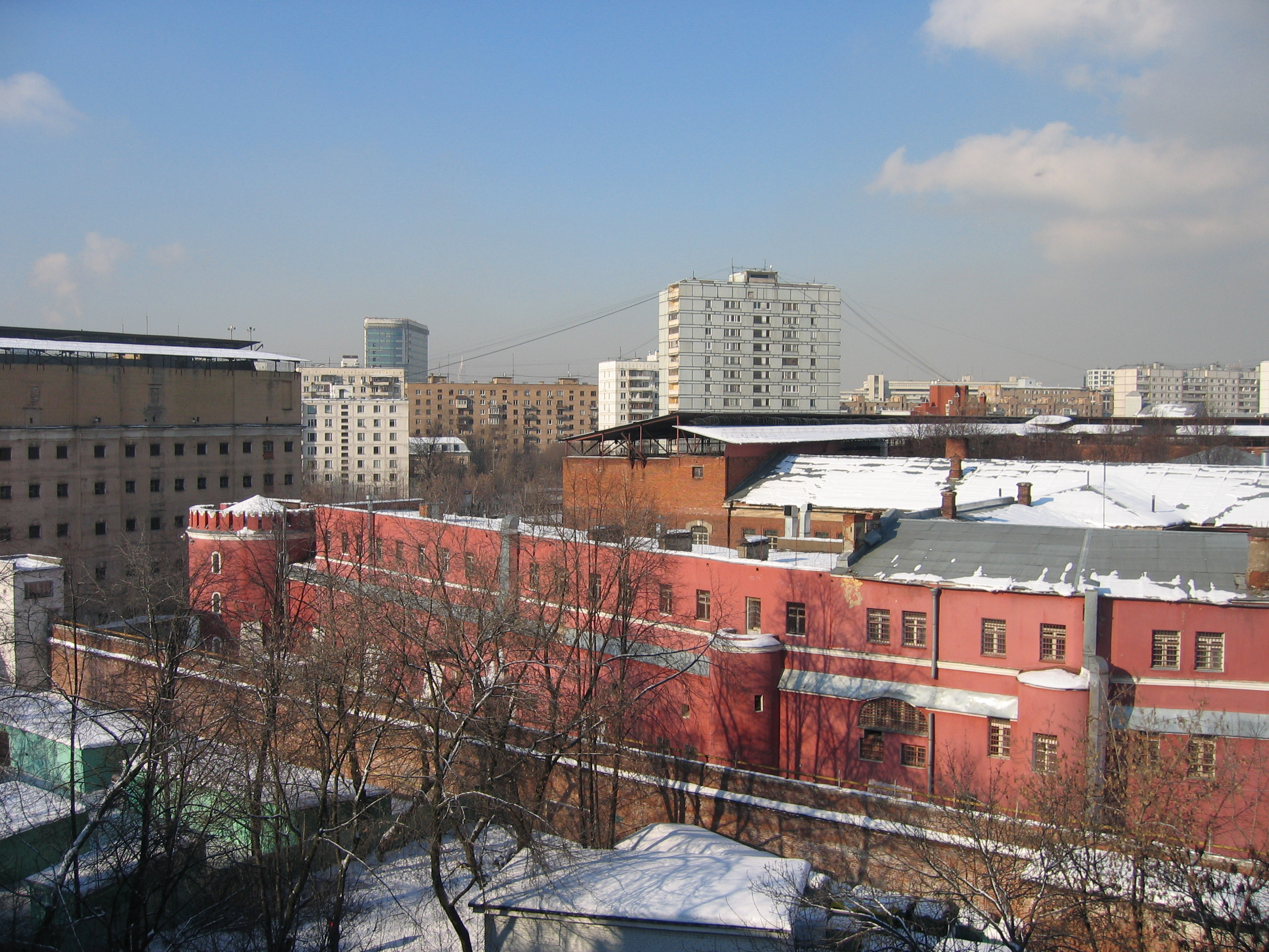 Butyrka Prison in Moscow, one of its old buildings